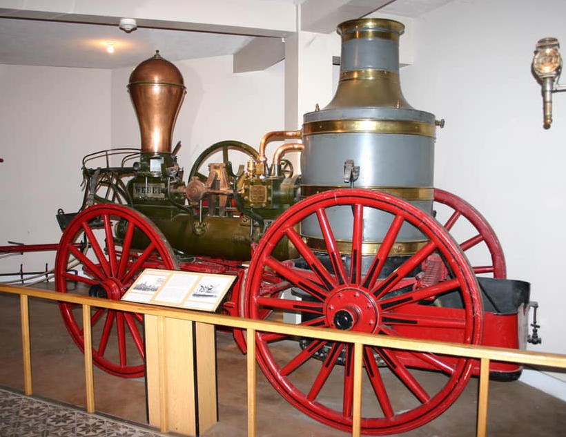 Old Betsy, a steam-powered fire engine from 1862, Haggin Museum, Stockton, California.